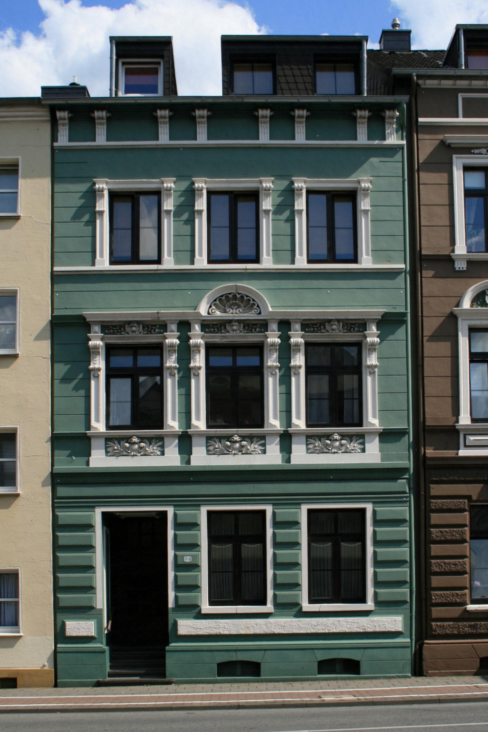 Cultural heritage monument No. B 064 in Mönchengladbach